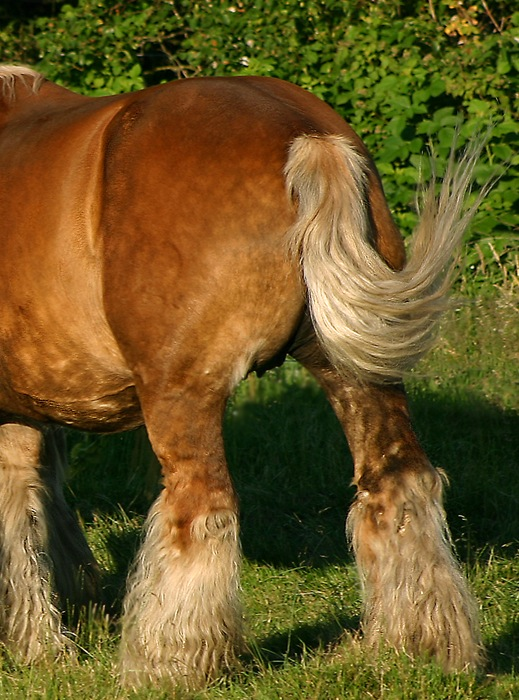 Jutlandic horses are a part of the restoration project at Vorup Enge near Randers, Denmark. These horses have fetlock feathers of extraordinary luxuriance.